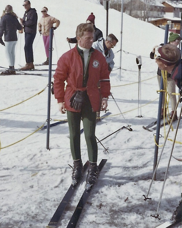 I shot this photo of Stein Eriksen, Olympic Skier, while skiing Aspen Mountain on March 3, 1967. Based upon his date of birth, Stein would have been 39 years of age at this time.